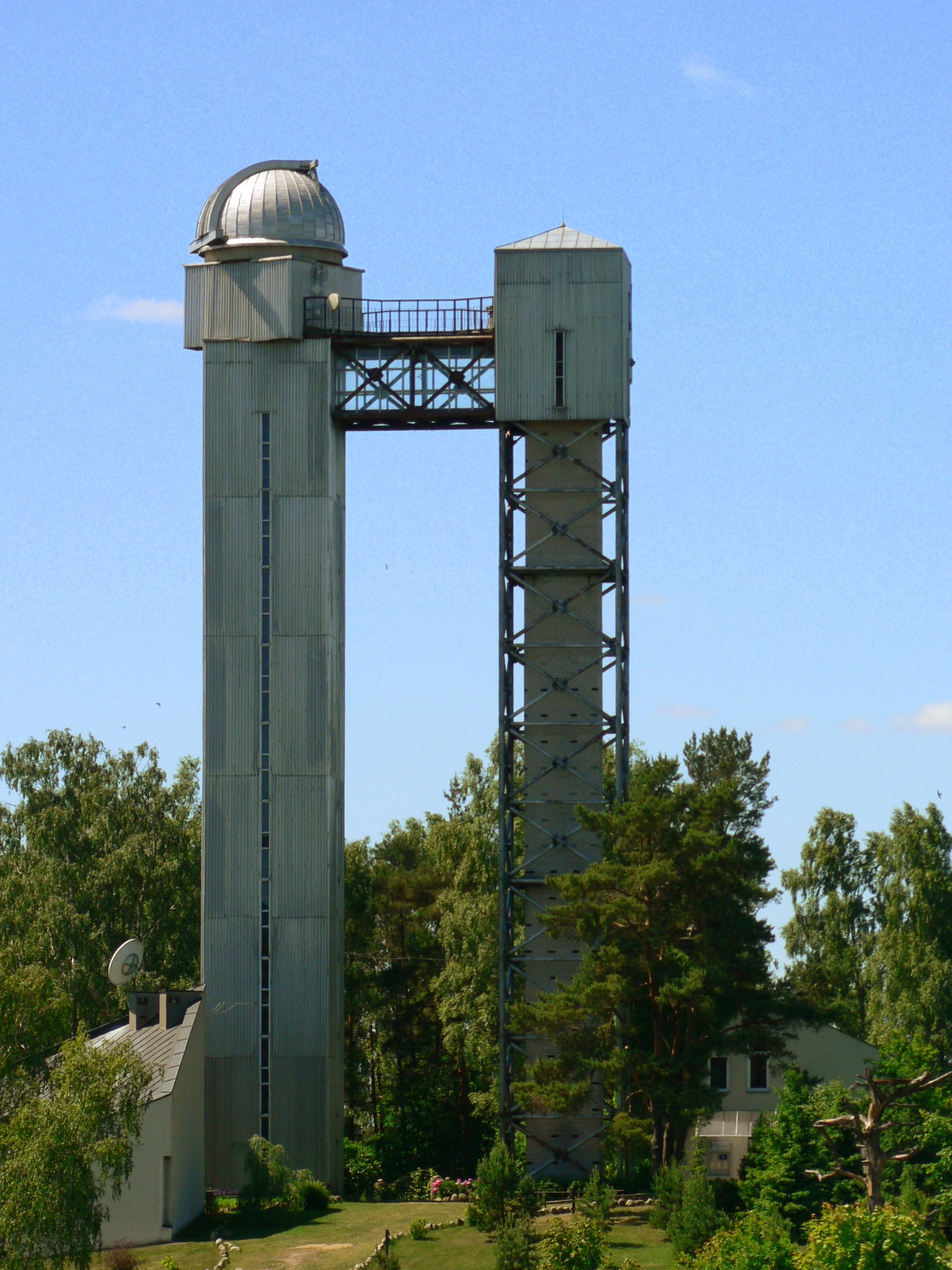 Tower of Museum of Ethnocosmology in Kulionys, Molėtai district, Lithuania. Author: Wojsyl, 2005